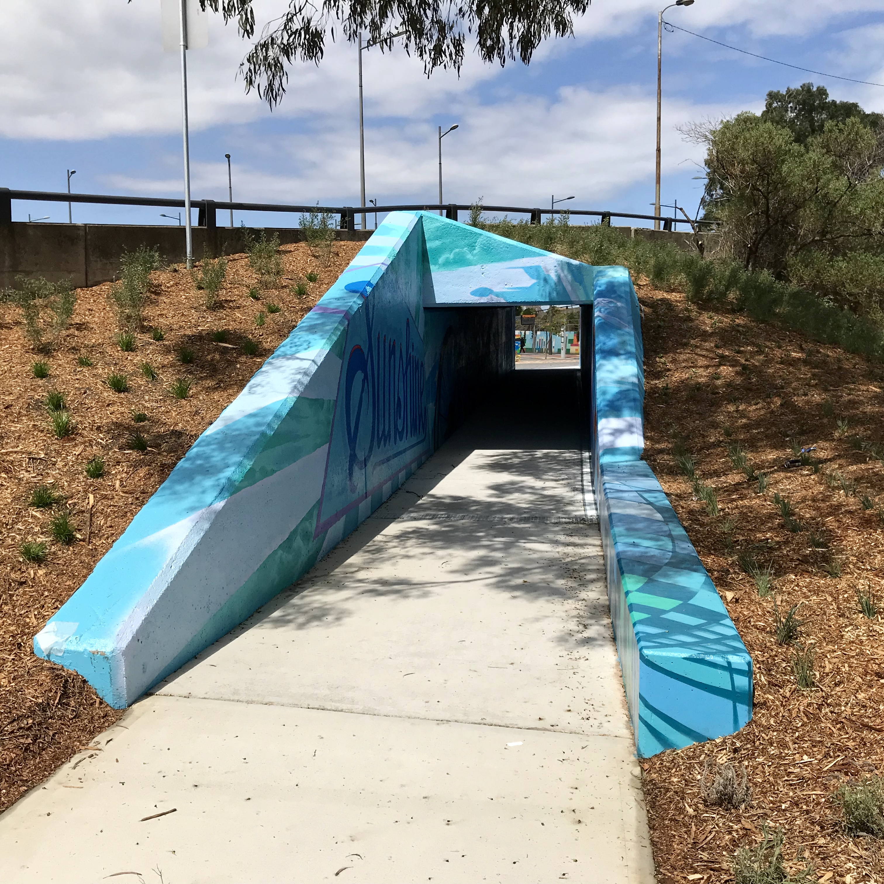 The Sunshine station bike underpass for the Harvester Road Bike Path, opened in October 2018. This photo taken from the northern aspect.